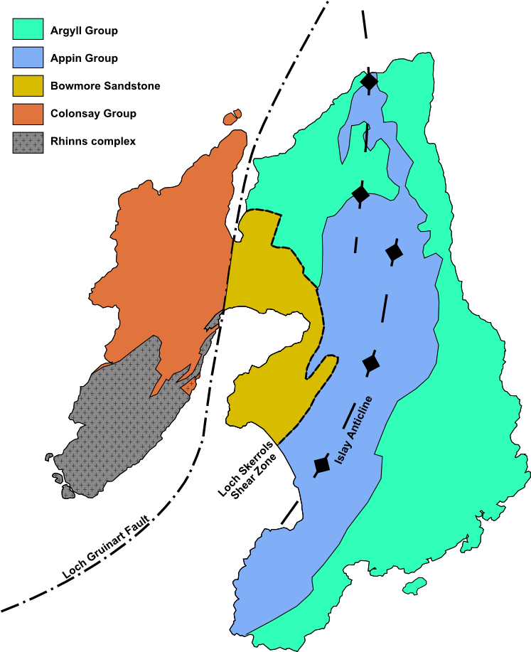 Geological map of Islay based on various sources, including McAteer et al. 2010, Pitcairn et al. 2010 and BGS maps